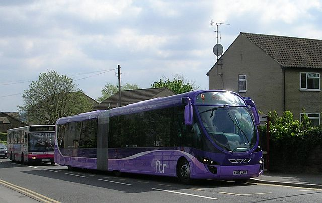 An ftr bus (#19022 reg. YJ07 LVO) in Leeds, England. It is pictured heading west at the Lowtown Claremont bus stop on Low Town road in Pudsey, en route to the terminus at Waterloo Road, Pudsey.